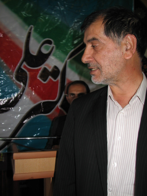 Mohammad Reza Bahonar - Nishapur